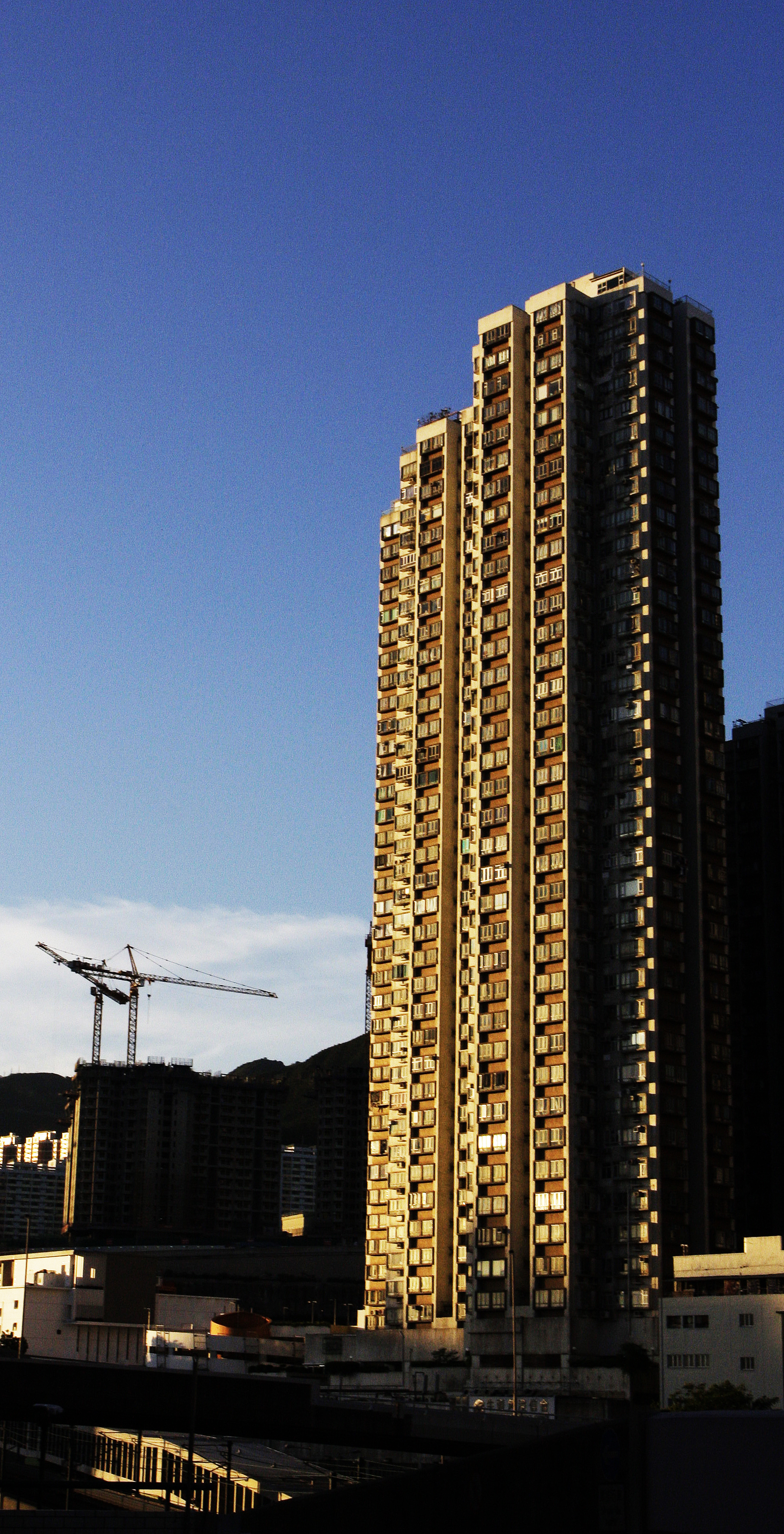 Tak Bo Gardens